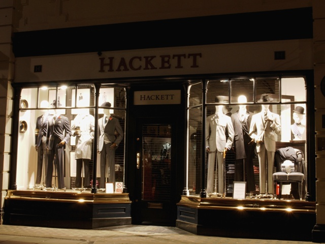 Hackett, gentlemen's outfitters in Jermyn Street